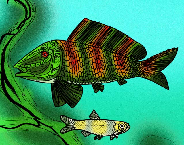 Reconstruction of Uabryichthys latus (top) andLeptolepis talbragarensis (bottom)